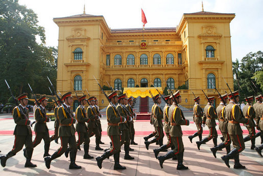 An honor guard passes by the Presidential Palace in Hanoi Friday, Nov. 17, 2006, during the arrival ceremony for U.S. President George W. Bush and Mrs. Laura Bush. White House photo by Paul Morse